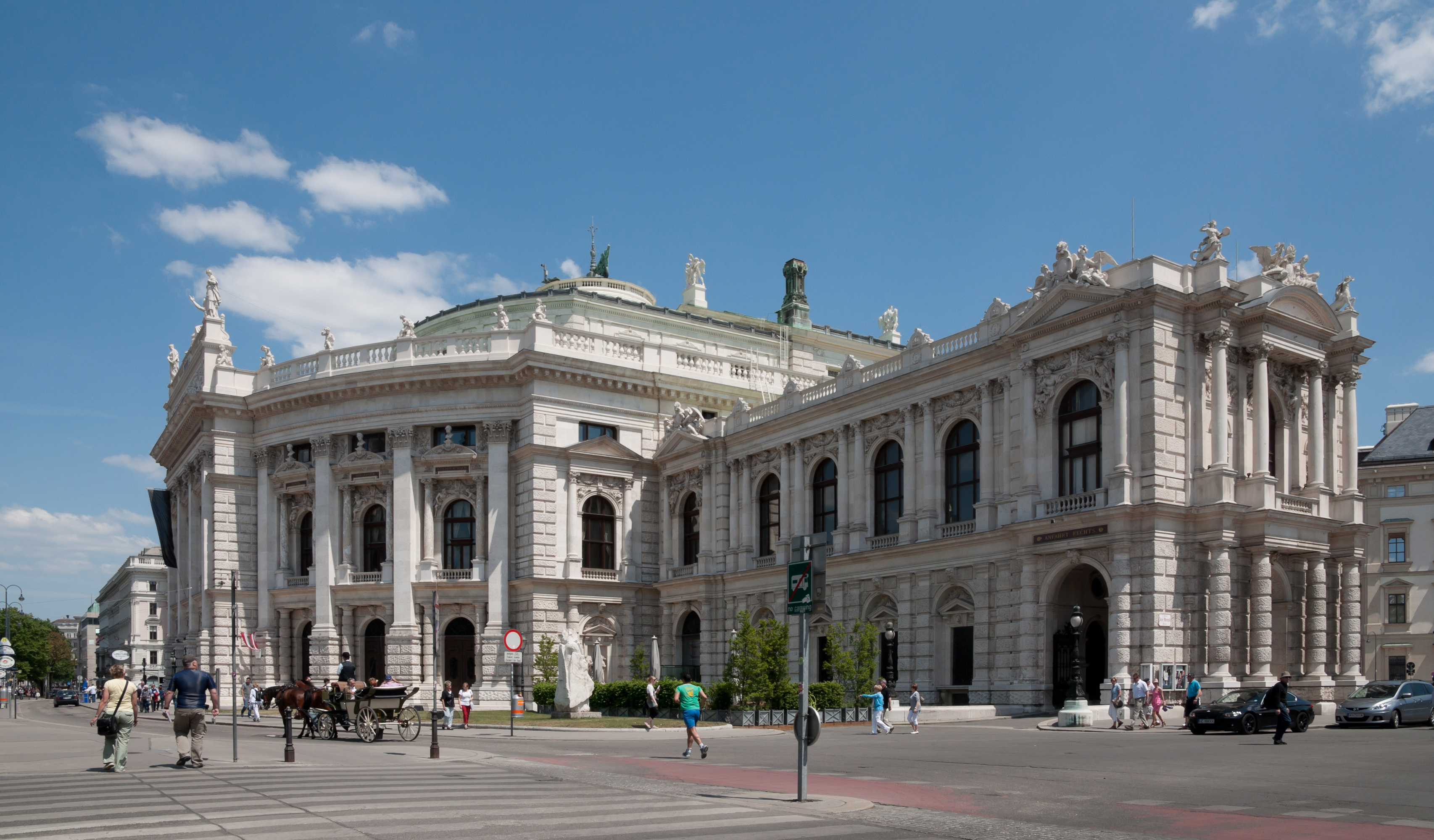 Burgtheater in Vienna.